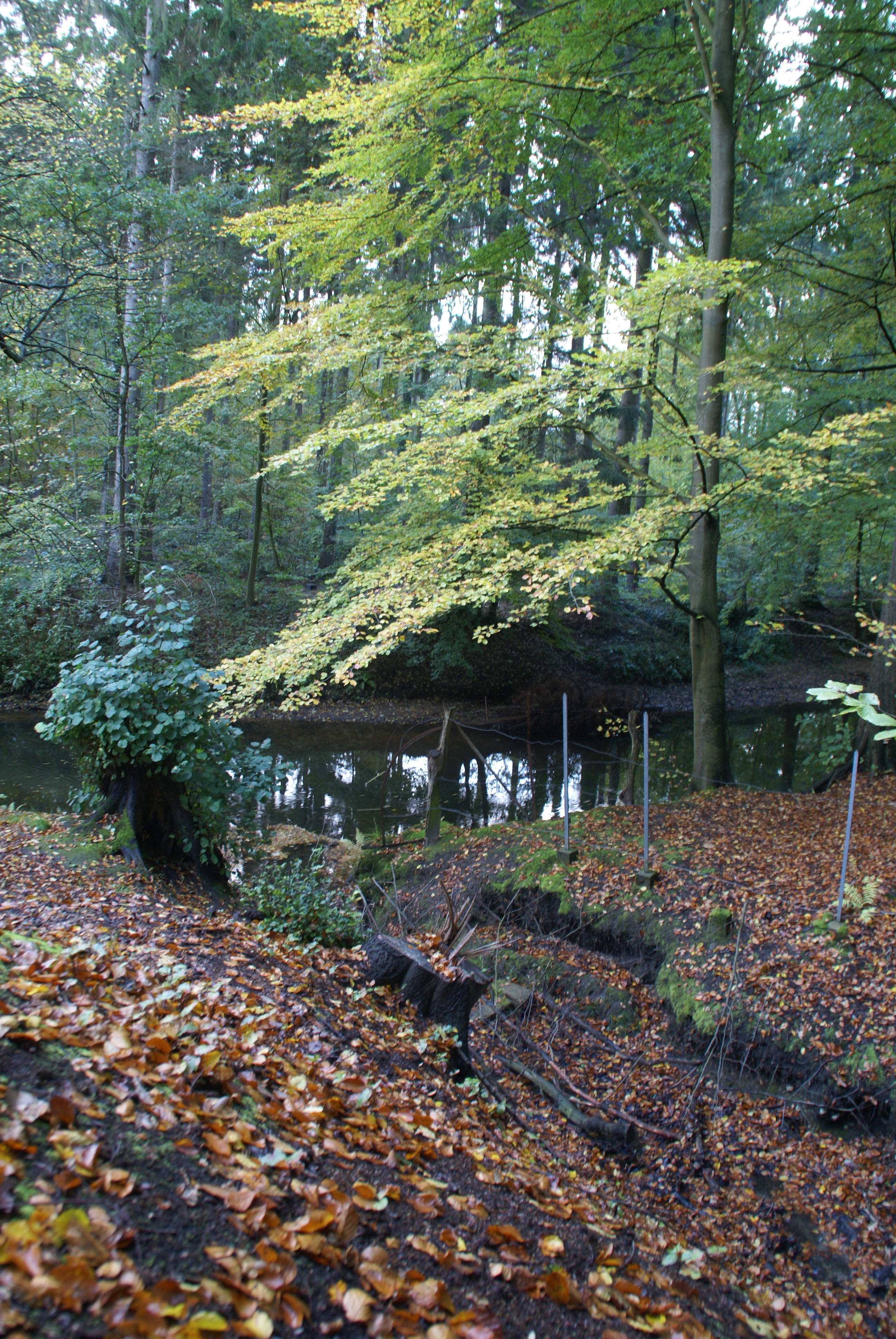 Hamburg (Wohldorf-Ohlstedt), Germany: The natural reserve of the Wohldorfer Wald